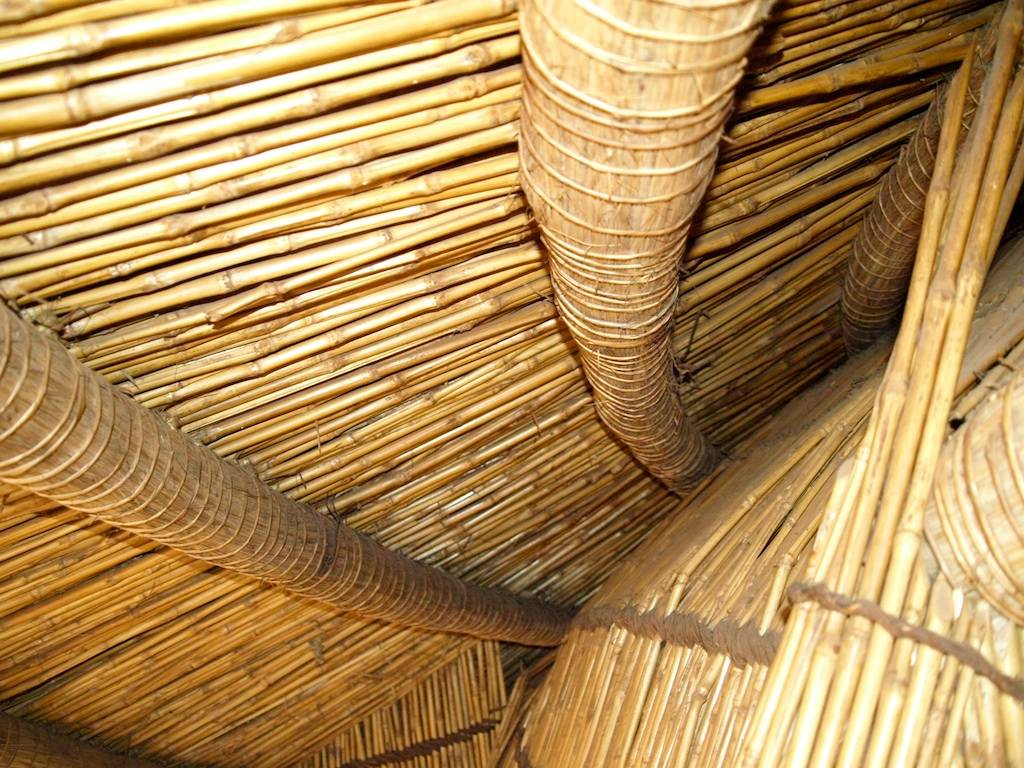 Kampala Kasubi Tombs thatch